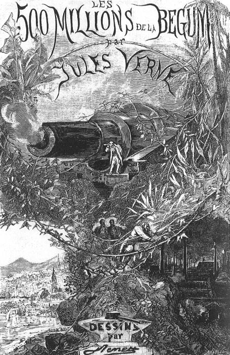 An illustration from Jules Verne's novel "The Begum's Fortune" (also published as "The Begum's Millions").